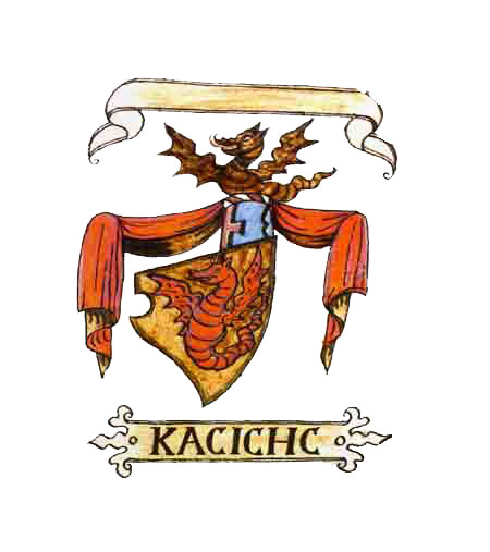 Image of the Kačić noble family coat of arms from the "Fojnica Grbovnik" (Fojnica Armoral)